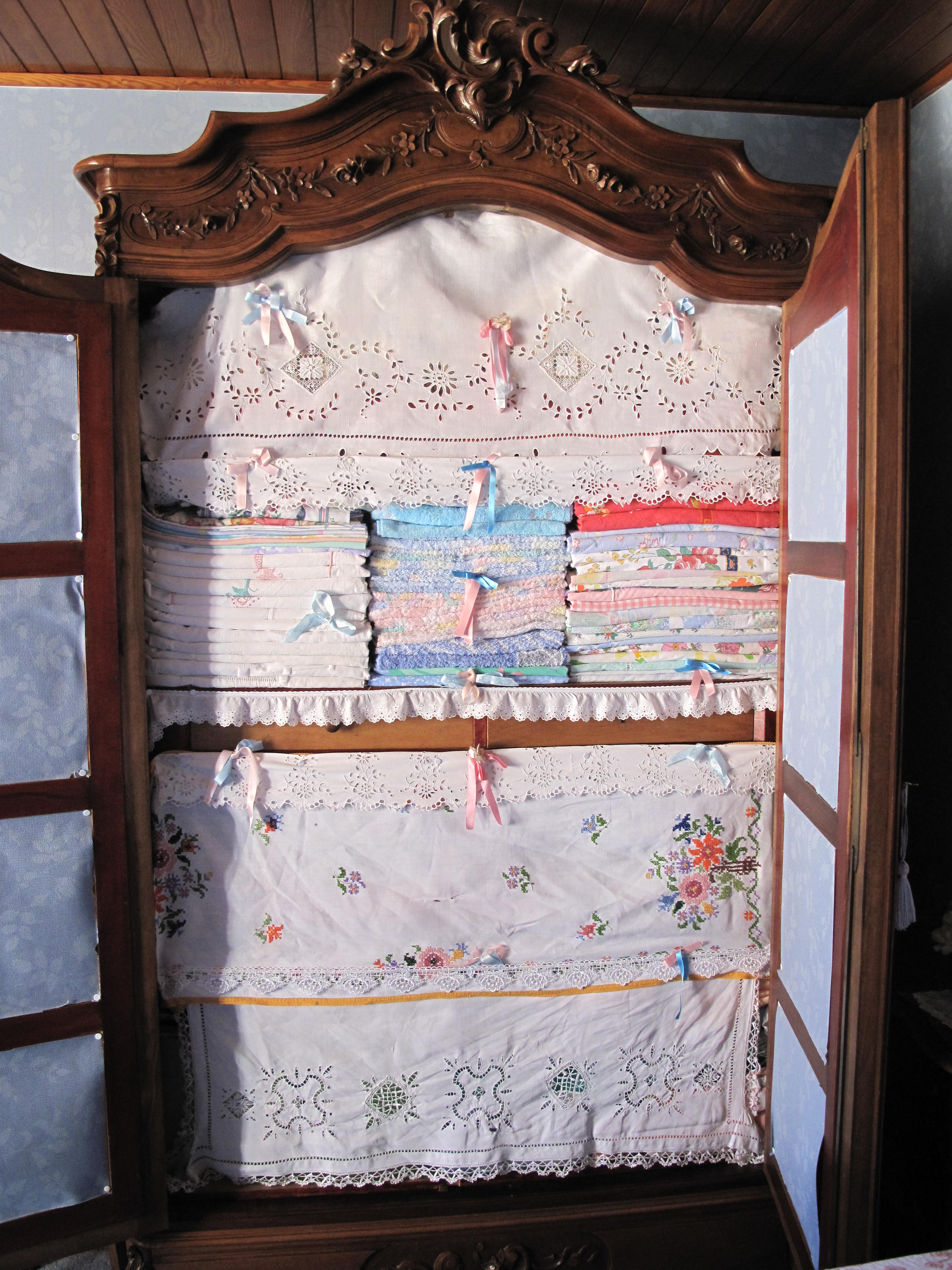 Cupboard with blankets, towels and linen dressed according tradition